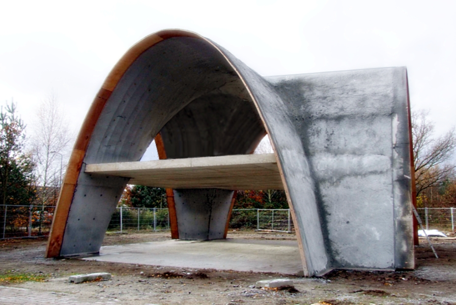 Cross Vault of shotcrete according catenary shape. Test model at scale 1:1 in cooperation with TU Eindhoven realized in 2008.